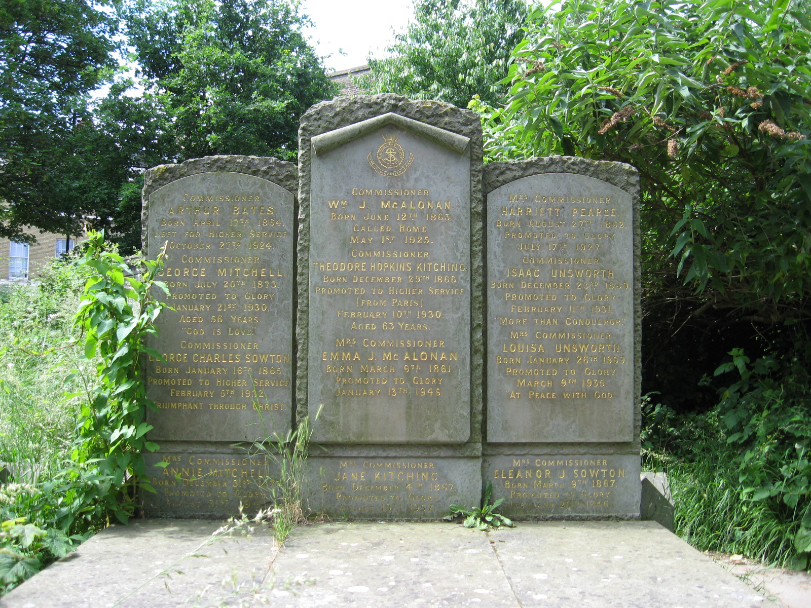 Photographs of Salvation Army graves taken at Abney Park Cemetery